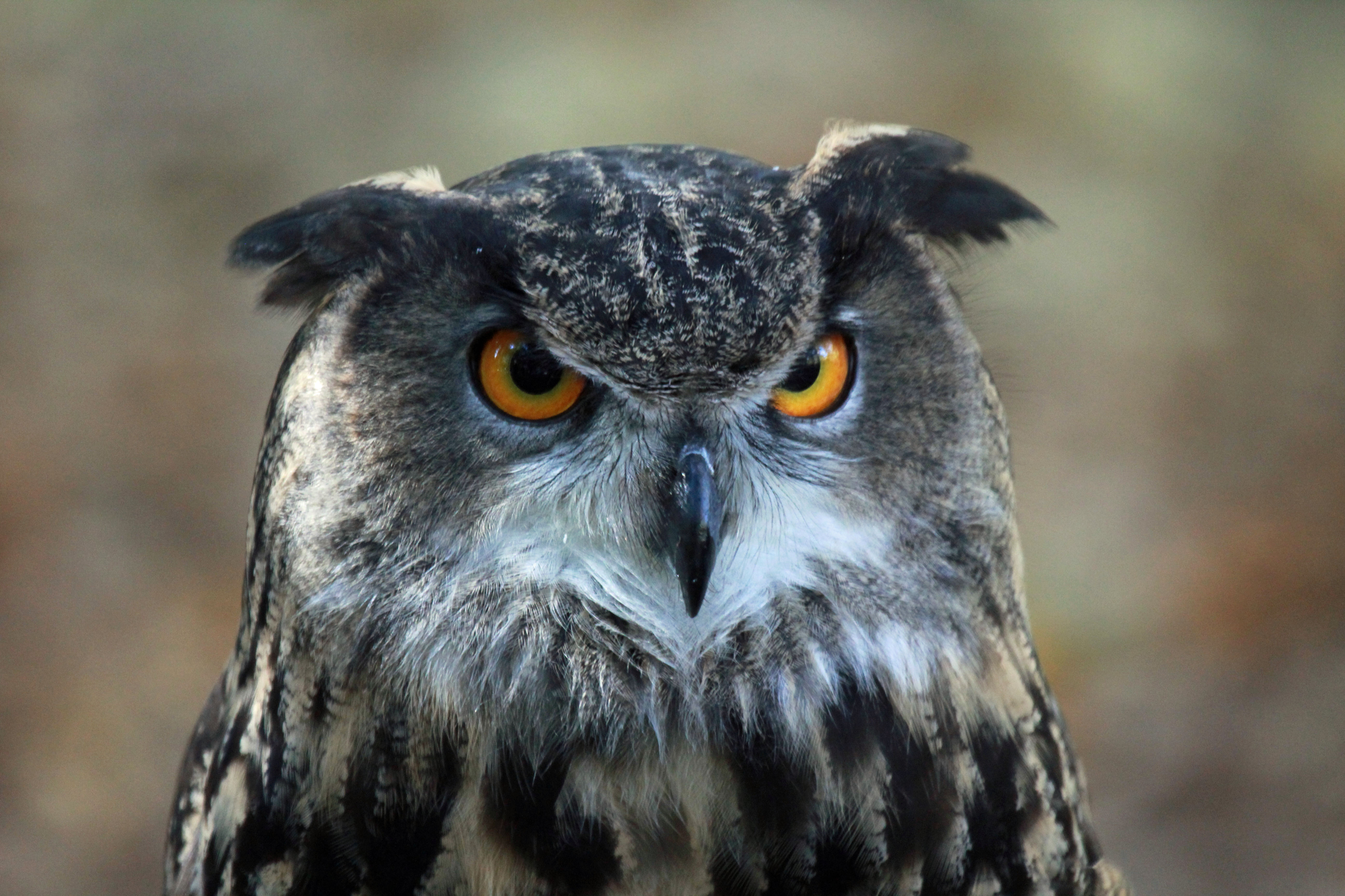 Eurasian Eagle Owl (Bubo bubo) - Carolina Raptor Center at Huntersville, North Carolina